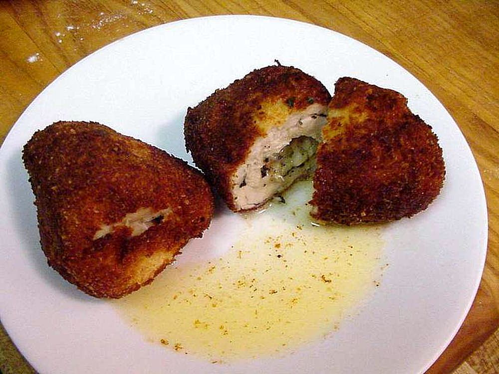 Image title: Chicken kiev Image from Public domain images website